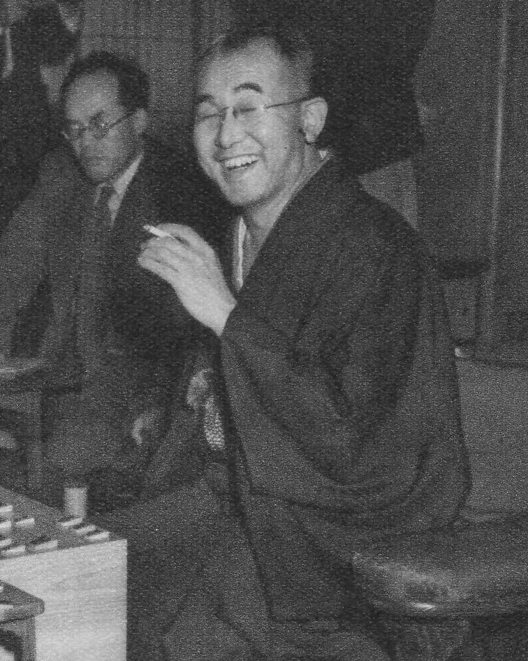 Yoshio Kimura (Shogi player), 1951.